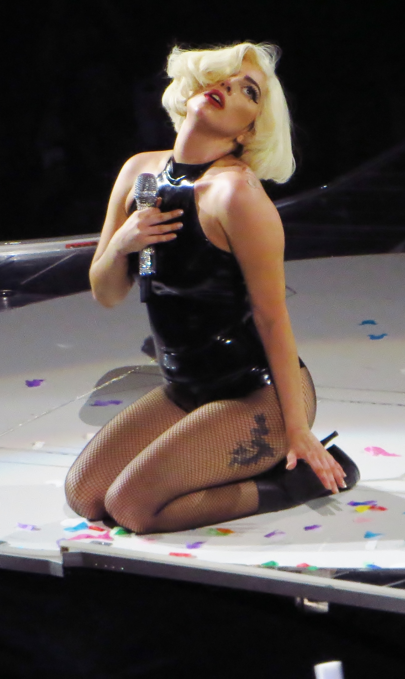 Lady Gaga, ARTPOP Ball Tour, Bell Center, Montréal, 2 July 2014 (59) Gaga performing on ArtRave: The Artpop Ball tour